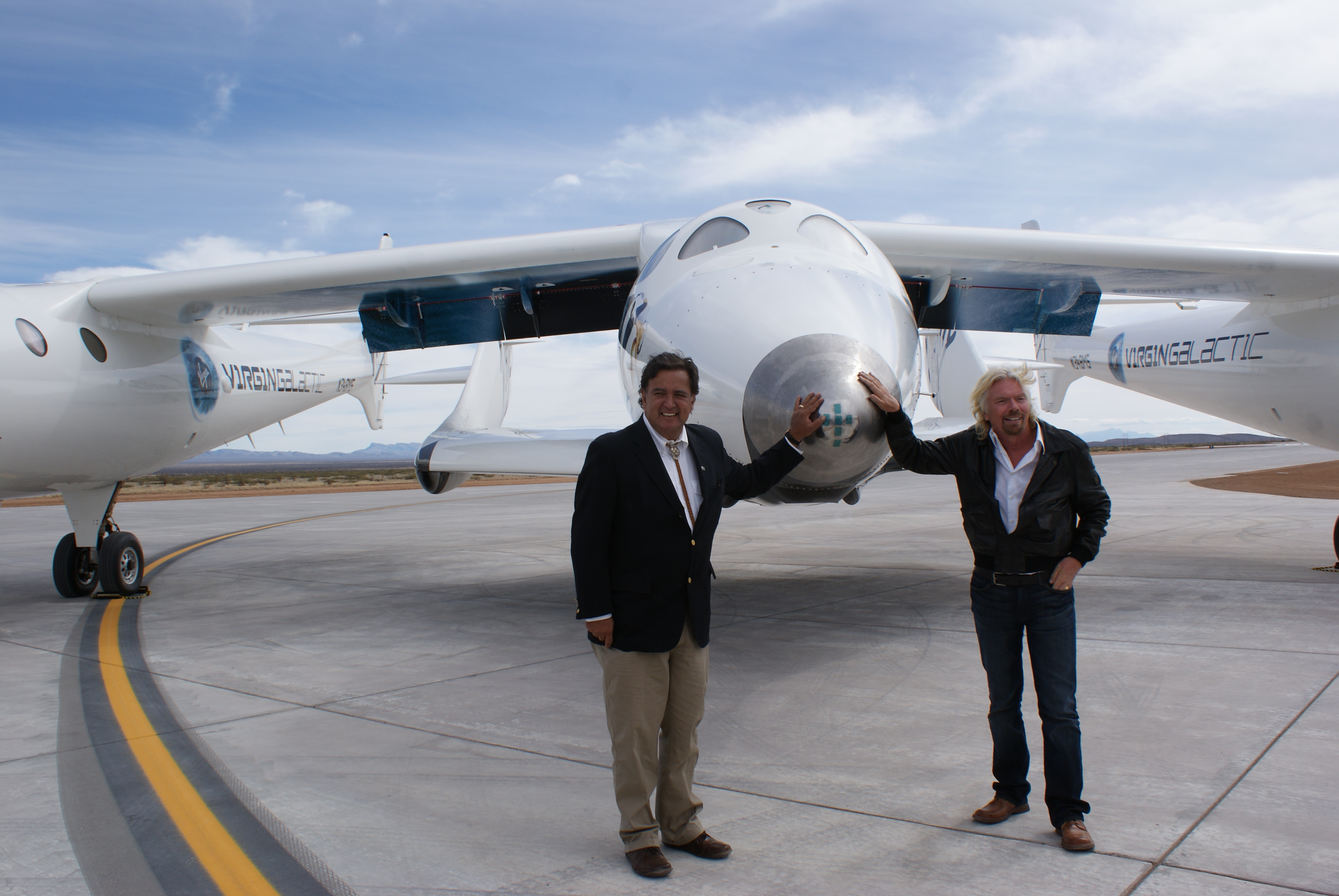 New Mexico Gov. Richardson and Sir Richard Branson and the nose of SS2